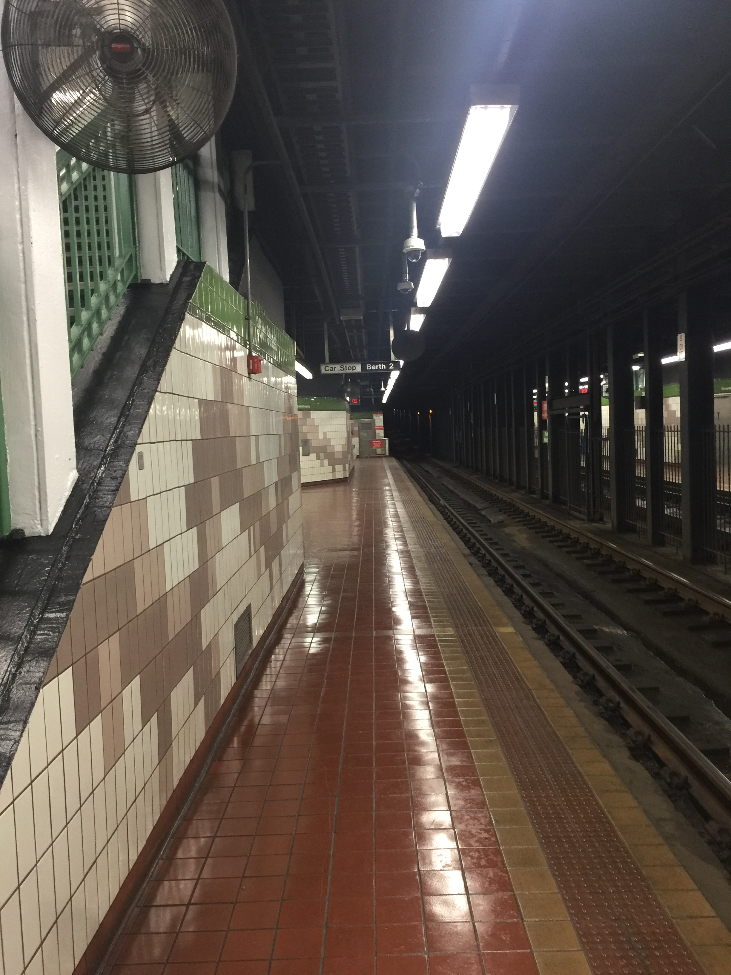 36th Street Station